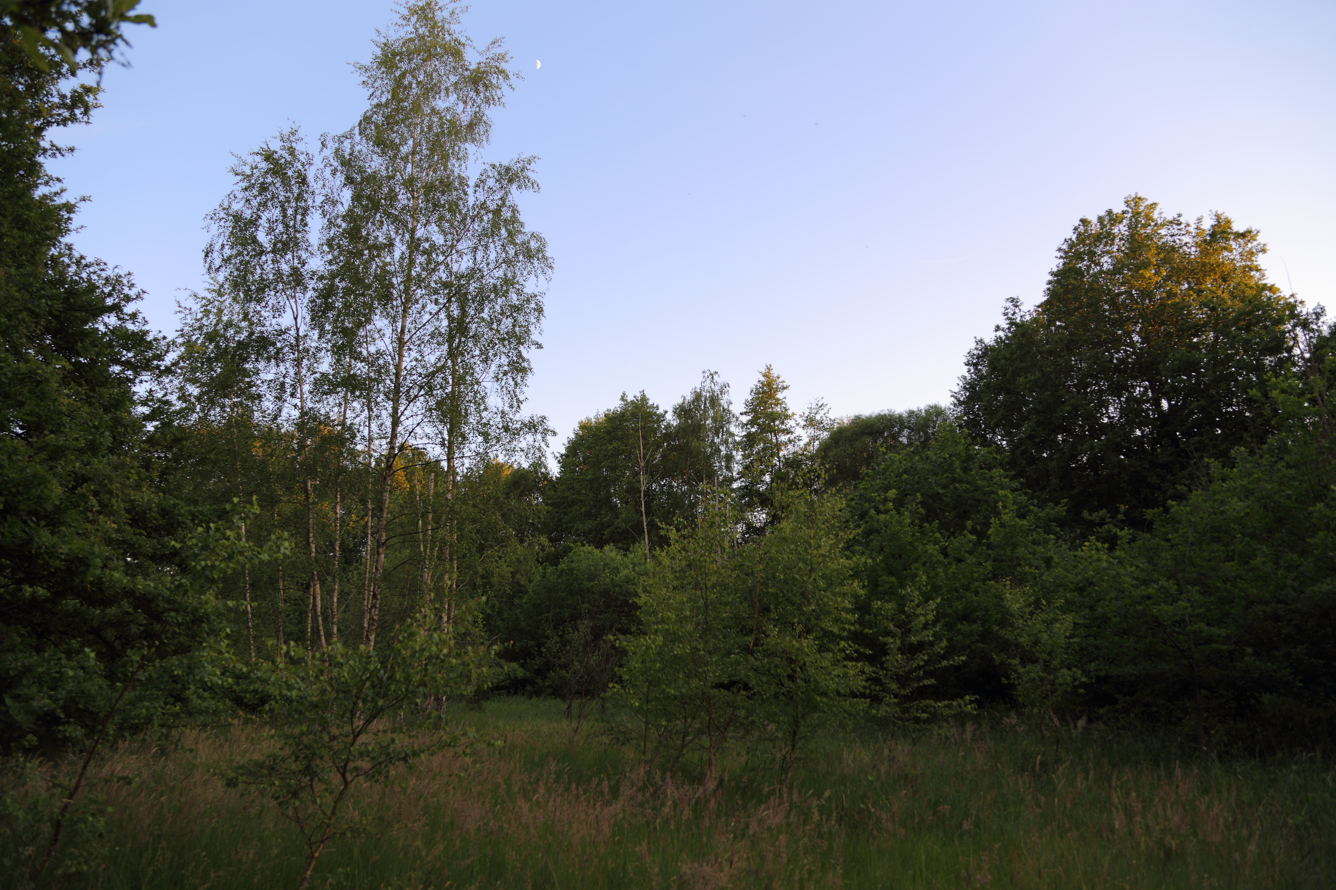 The nature reserve Lehnigksberg north of Lübben, Landkreis Dahme-Spreewald, Brandenburg, Germany.